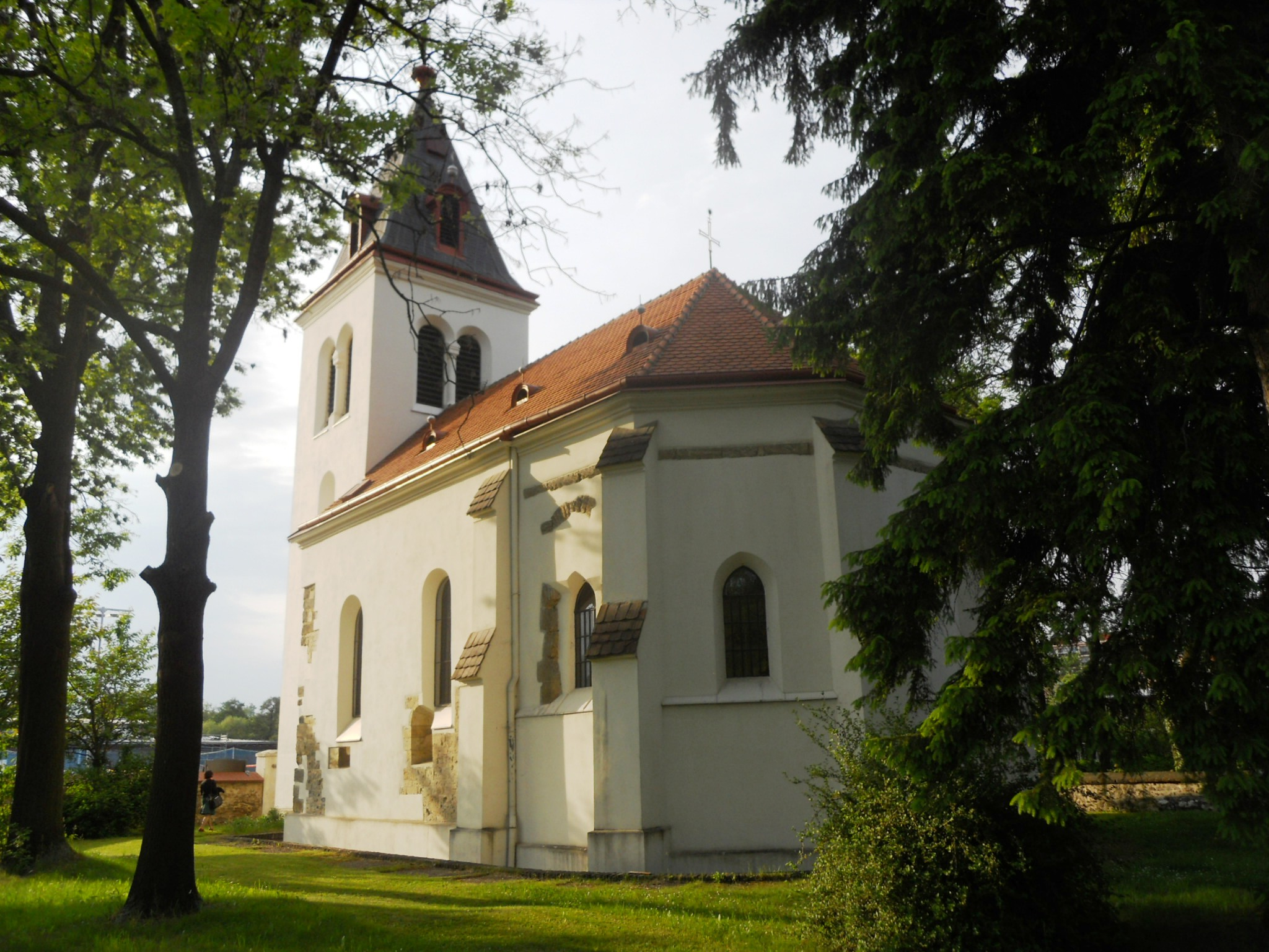 Prague Zabehlice, church of the Nativity of Our Lady from southeast